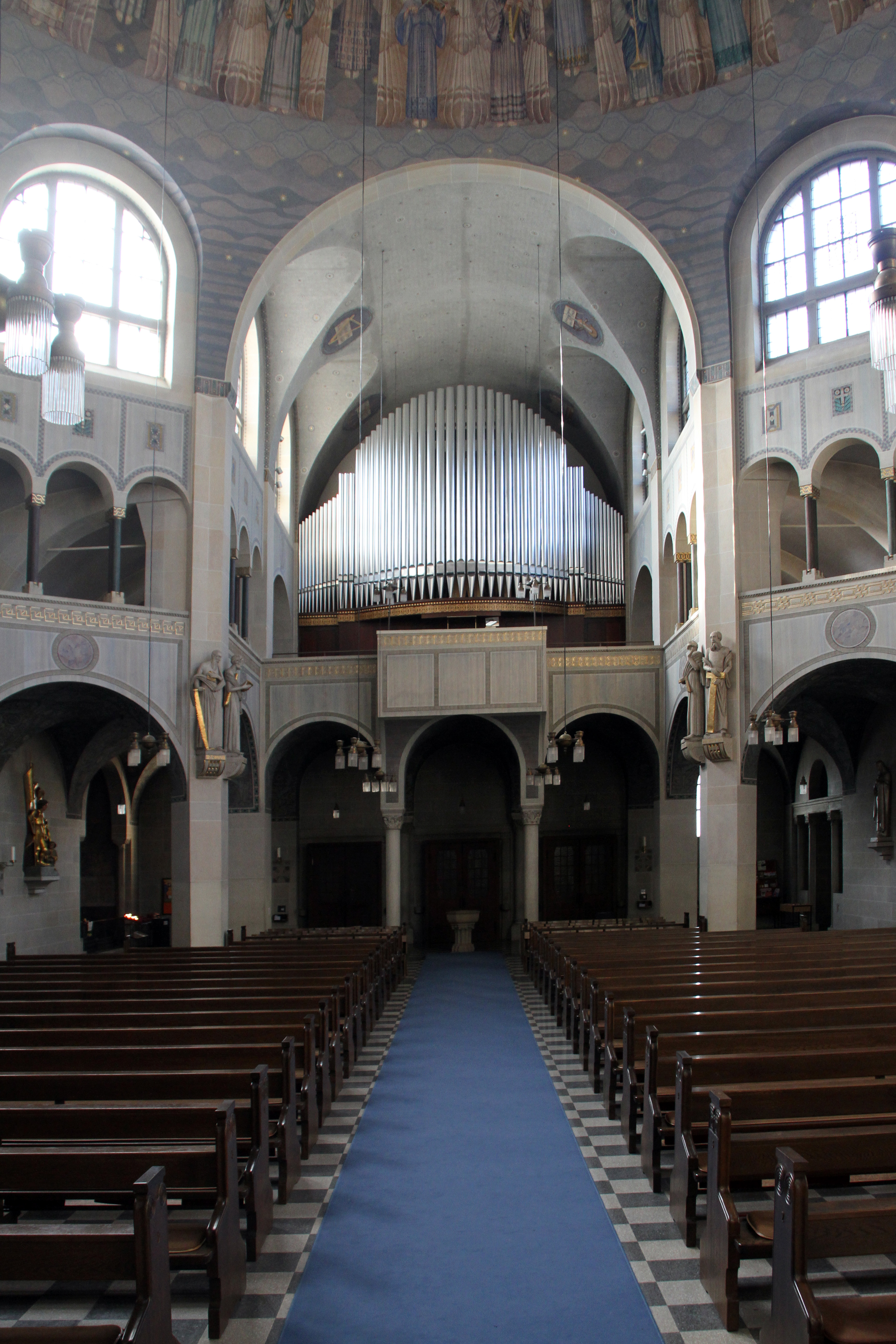 Church of Saint Bernard Baden-Baden, Germany. Organ.